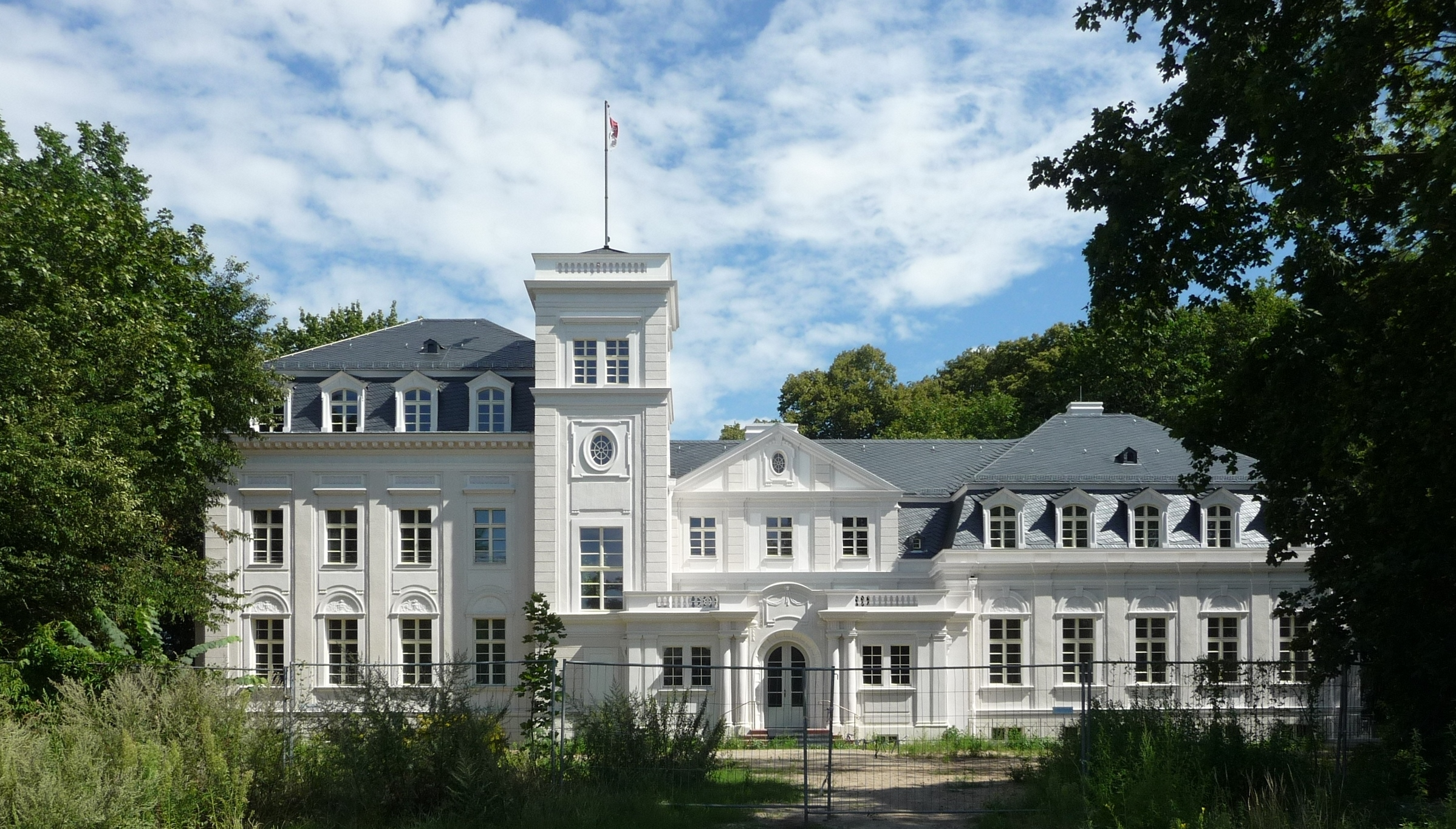 Villa Carlshagen, Olympischer Weg 1 (formerly Zeppelinstraße 114), Potsdam, Germany. The house is a listed building.